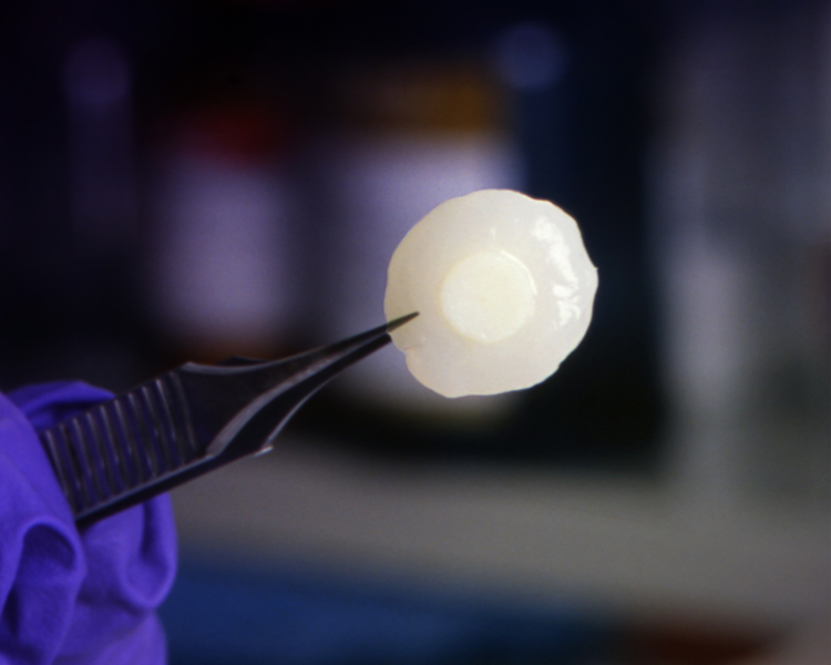 Nanofiber Based Engineered Cartilage. Image # 00175 in National Institute of Arthritis and Musculoskeletal and Skin Diseases (NIAMS) Image Gallery. "This photograph shows a sample of tissue engineered cartilage produced using a biodegradable nanofibrous scaffold seeded with adult human mesenchymal stem cells. Nanofibrous scaffolds structurally resemble the native extracellular matrix of tissues, and degrade over time to allow the seeded cells to differentiate and produce their own specific extracellular matrix, giving rise to new, functional tissue."